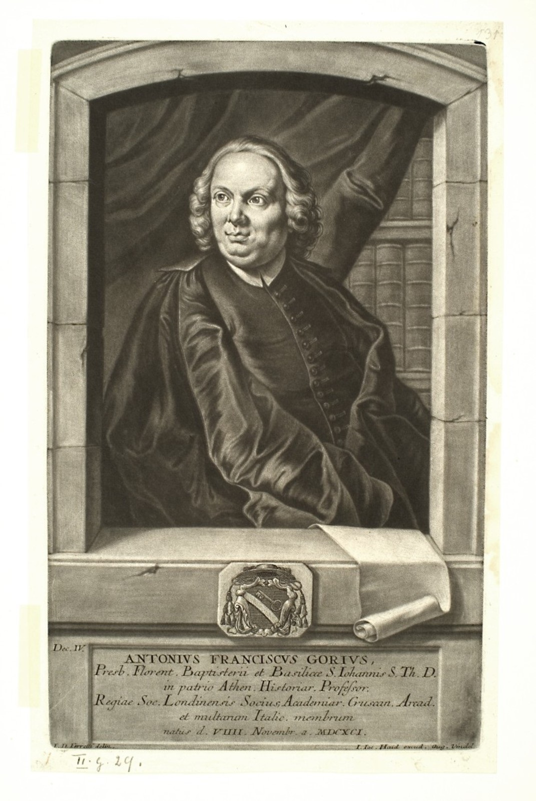 Antonio Francesco Gori (1691–1757), italian Antiquarian and Classical scholar.